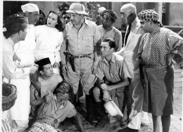 This is a movie still for the film, Tiger Fangs. Source: personal collection